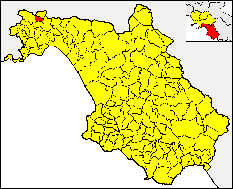 Locator map of the municipality of Siano (red) within the Province of Salerno